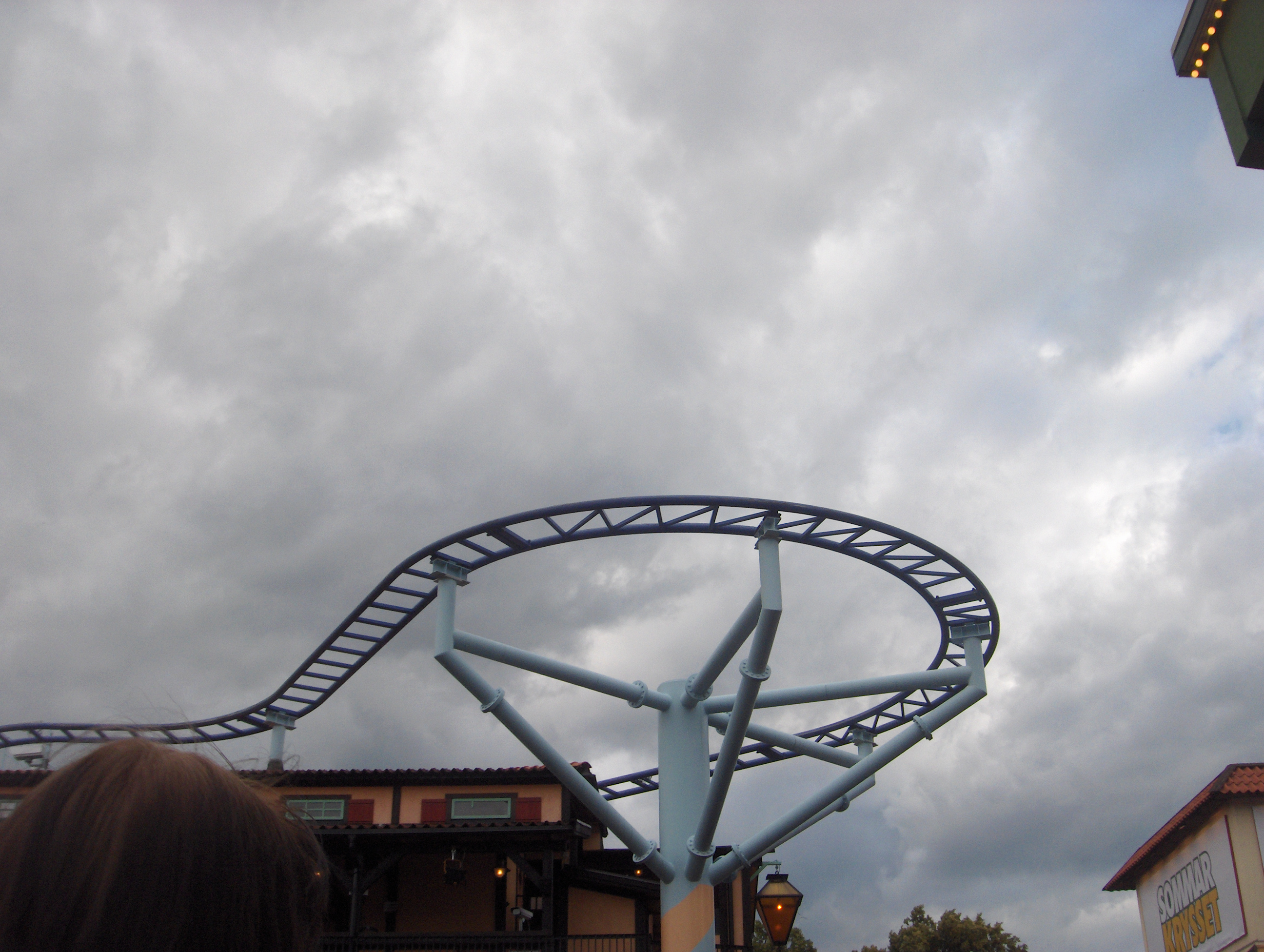 Vilda Musen at Gröna Lund summer 2007